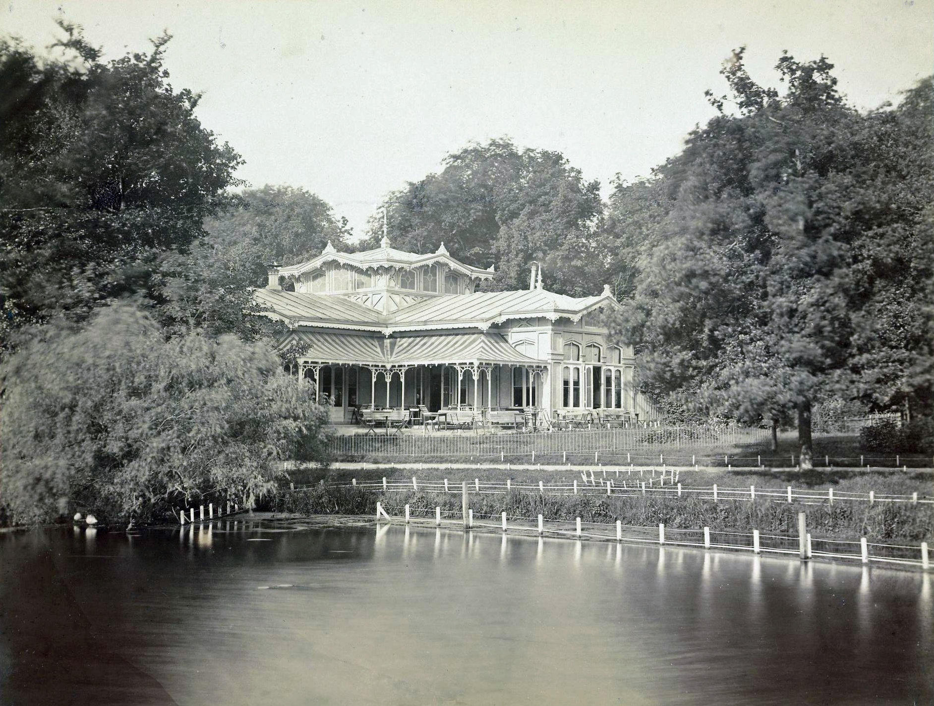 Club House of the Sociëteit Musis Sacrum (Musical society Musis Sacrum) in het Plantsoen (Leiden). Built in 1871; demolished in 1929.